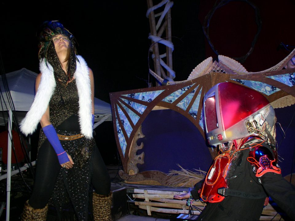 Phutureprimitive, closing act on the main stage of the Lucidity Festival.